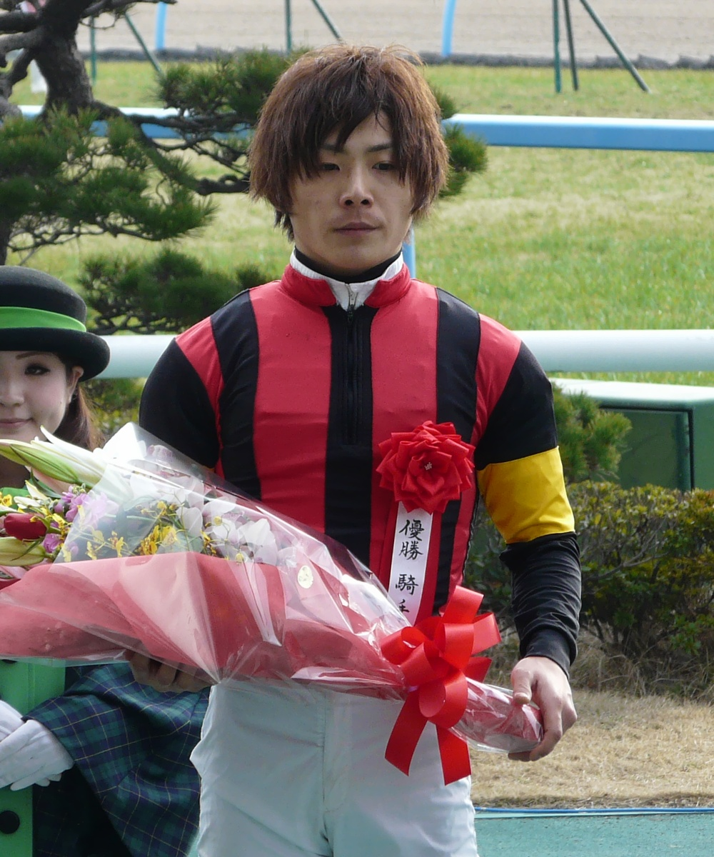 Haruhiko-Kawasu20120204